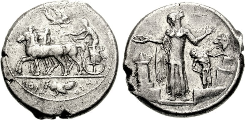 Sicily, Himera. 440-430/25 BC. AR Tetradrachm (17.11 g, 3h). NOIA-PEMI, (imeraion) The nymph Himera, holding kentron in right hand, reins in both, driving quadriga left; above, Nike flying right, holding open wreath in both hands; in exergue, cock left. Himera standing facing, head left, holding in right hand a patera over altar to left; barley grain to upper right; to right, satyr bathing in fountain with lion-headed spout.